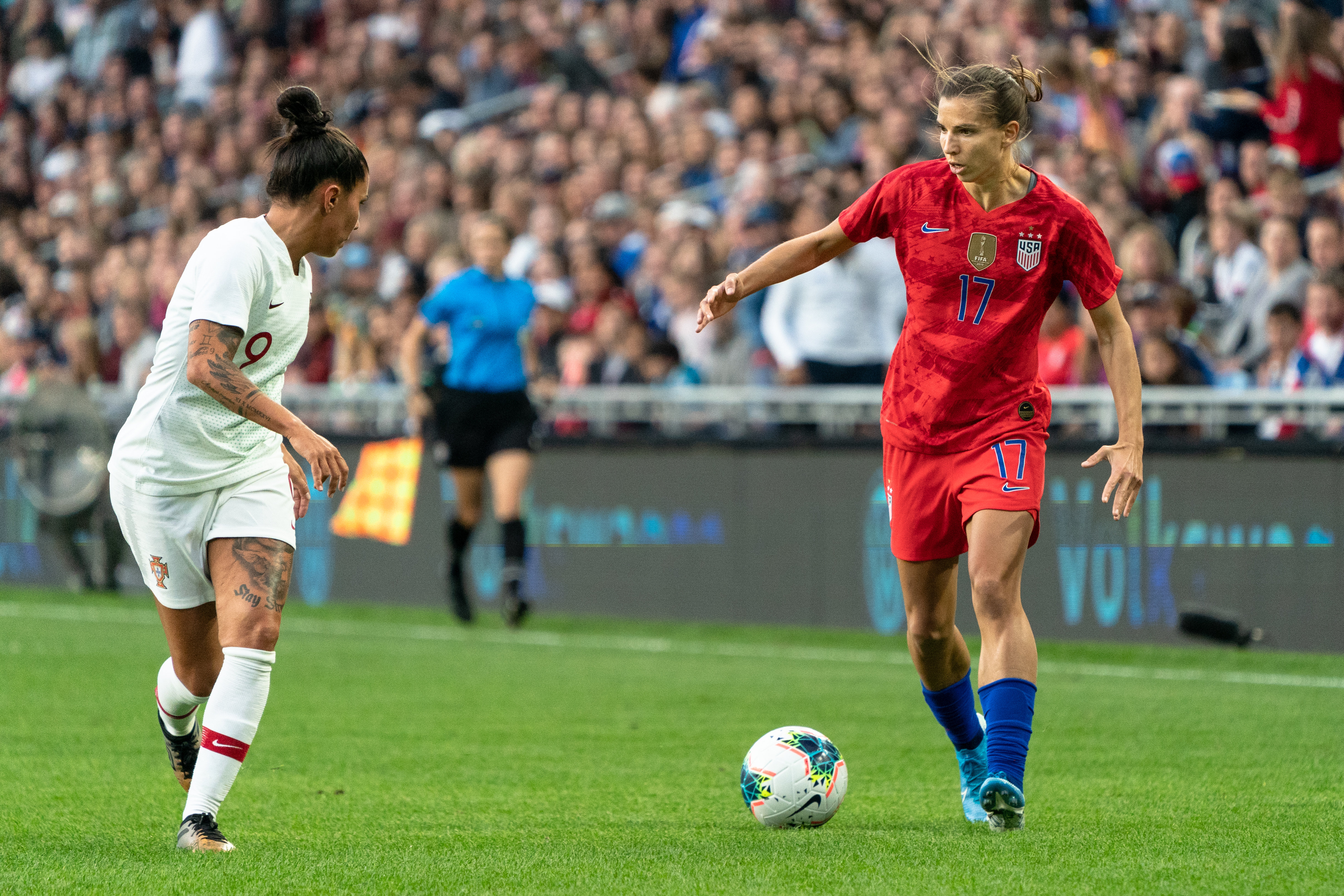 The US Women's National Team Victory Tour 2019 at Allianz Field in St Paul, Minnesota on 9/3/19; the US beat Portugal 3-0